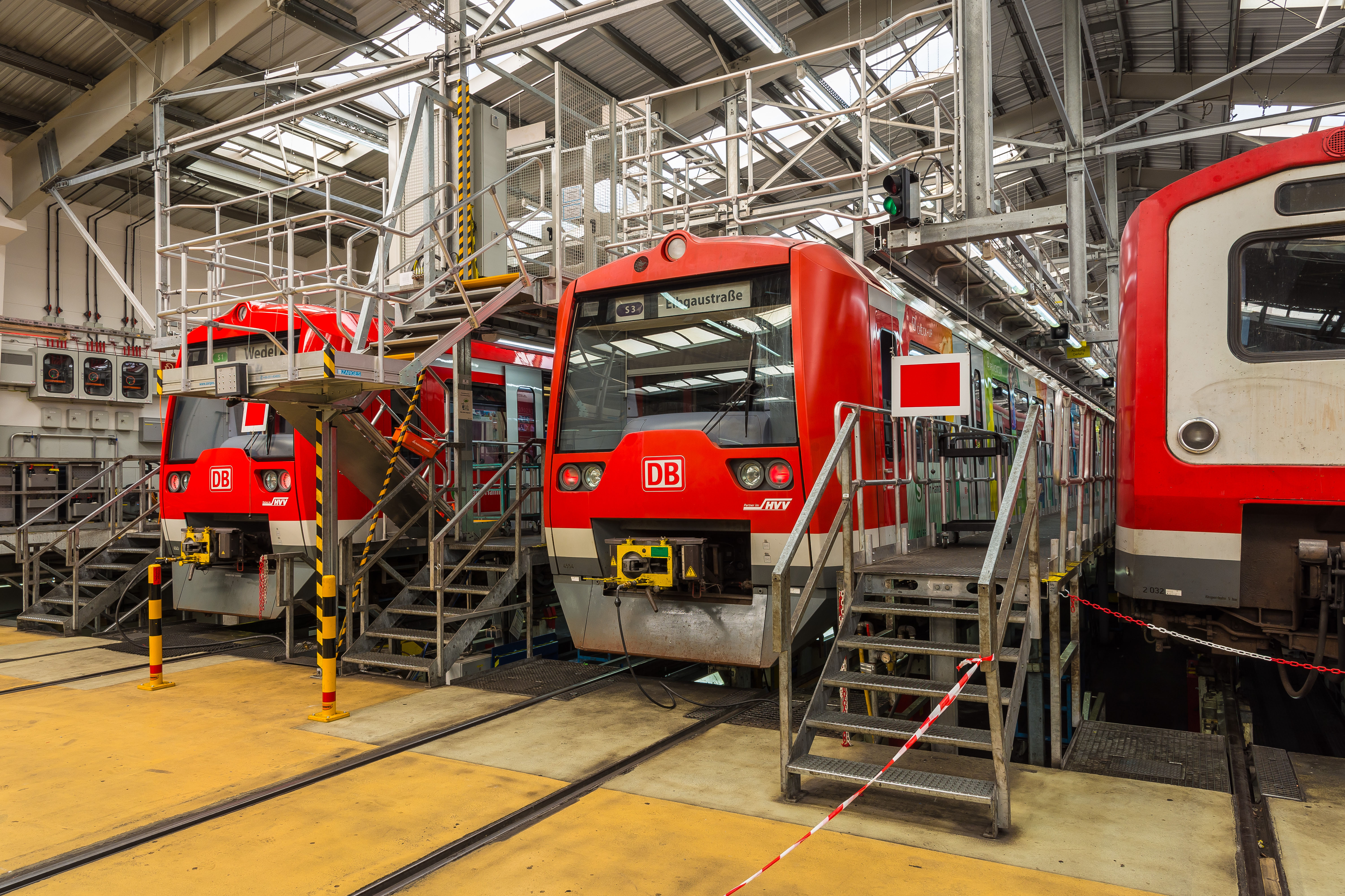 Trainsets of the classes 474 and 472 from the Hamburg S-Bahn in the shed at the maintenance workshop in Hamburg-Ohlsdorf.